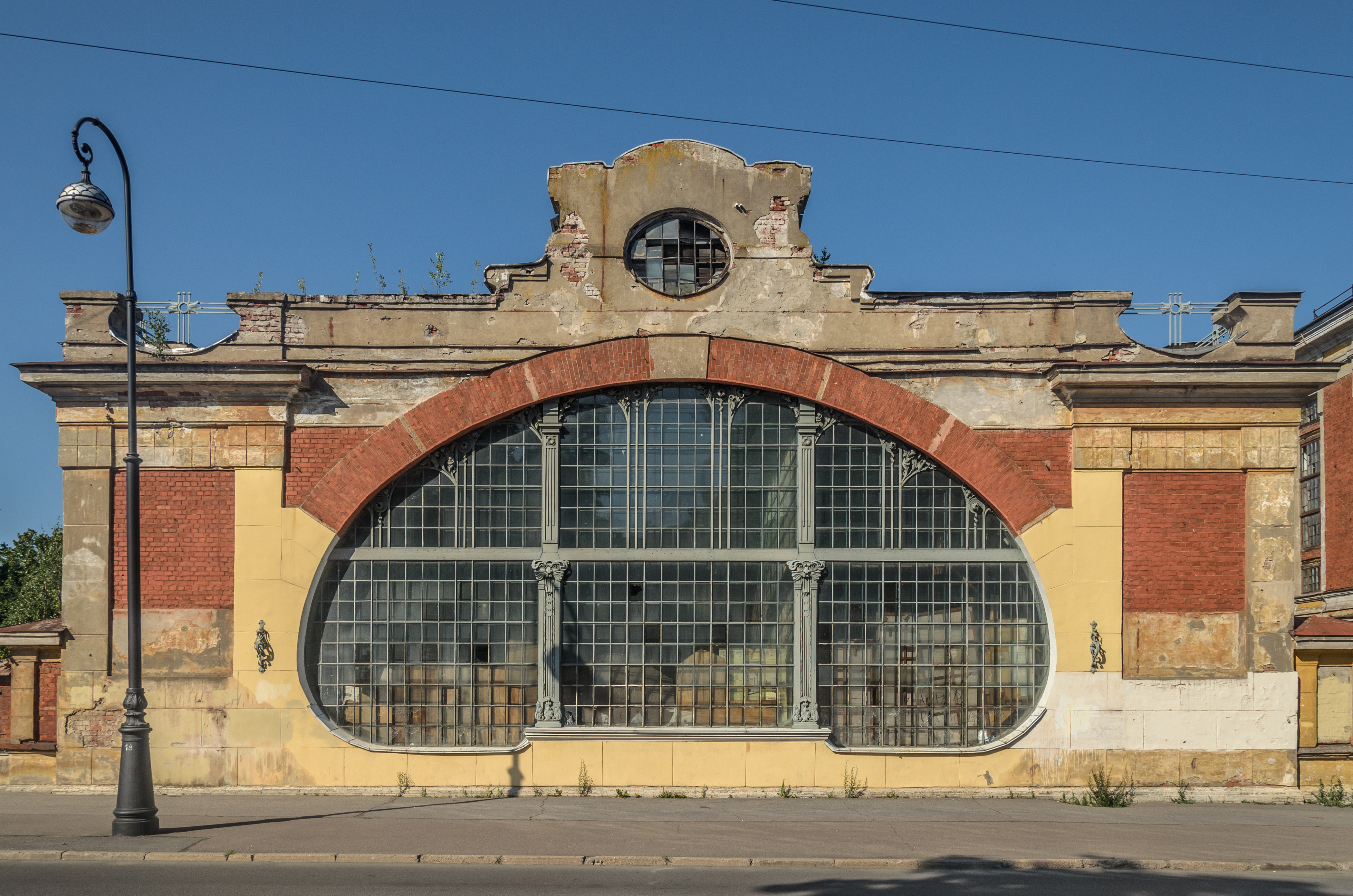 Technical School of Baltic Fleet in Kronstadt